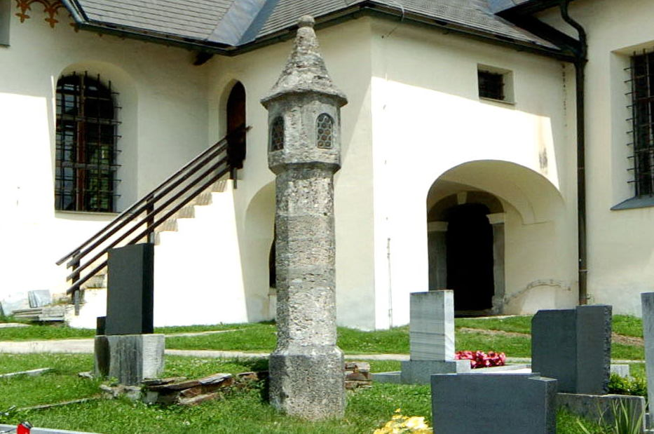 Parish church Saint George in Koettmannsdorf, municipality Koettmannsdorf, district Klagenfurt Land, Carinthia, Austria